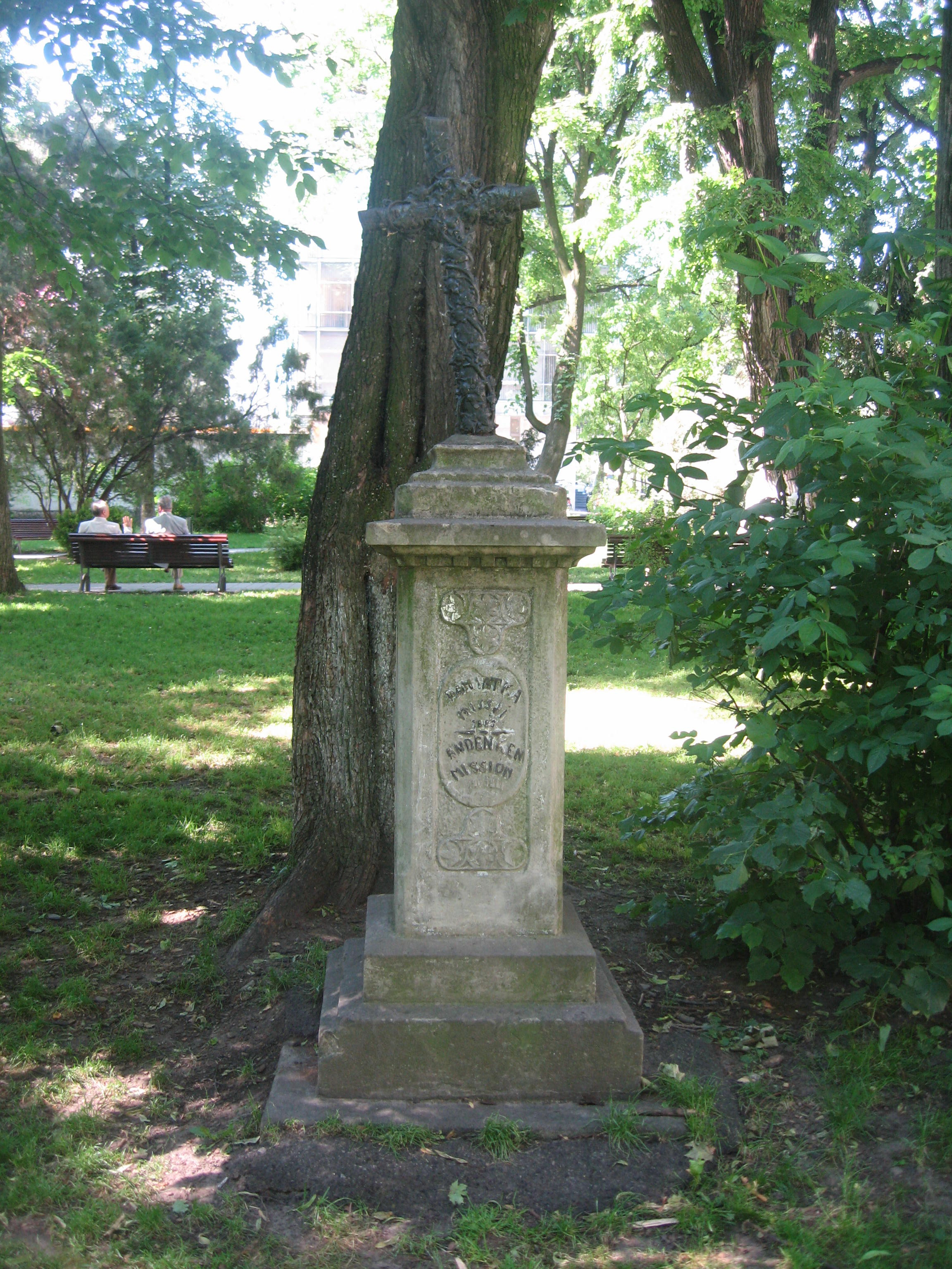 St. John of Nepomuk Roman Catholic Church in Suceava - the commemorative cross of the 1883 mission located near the church.